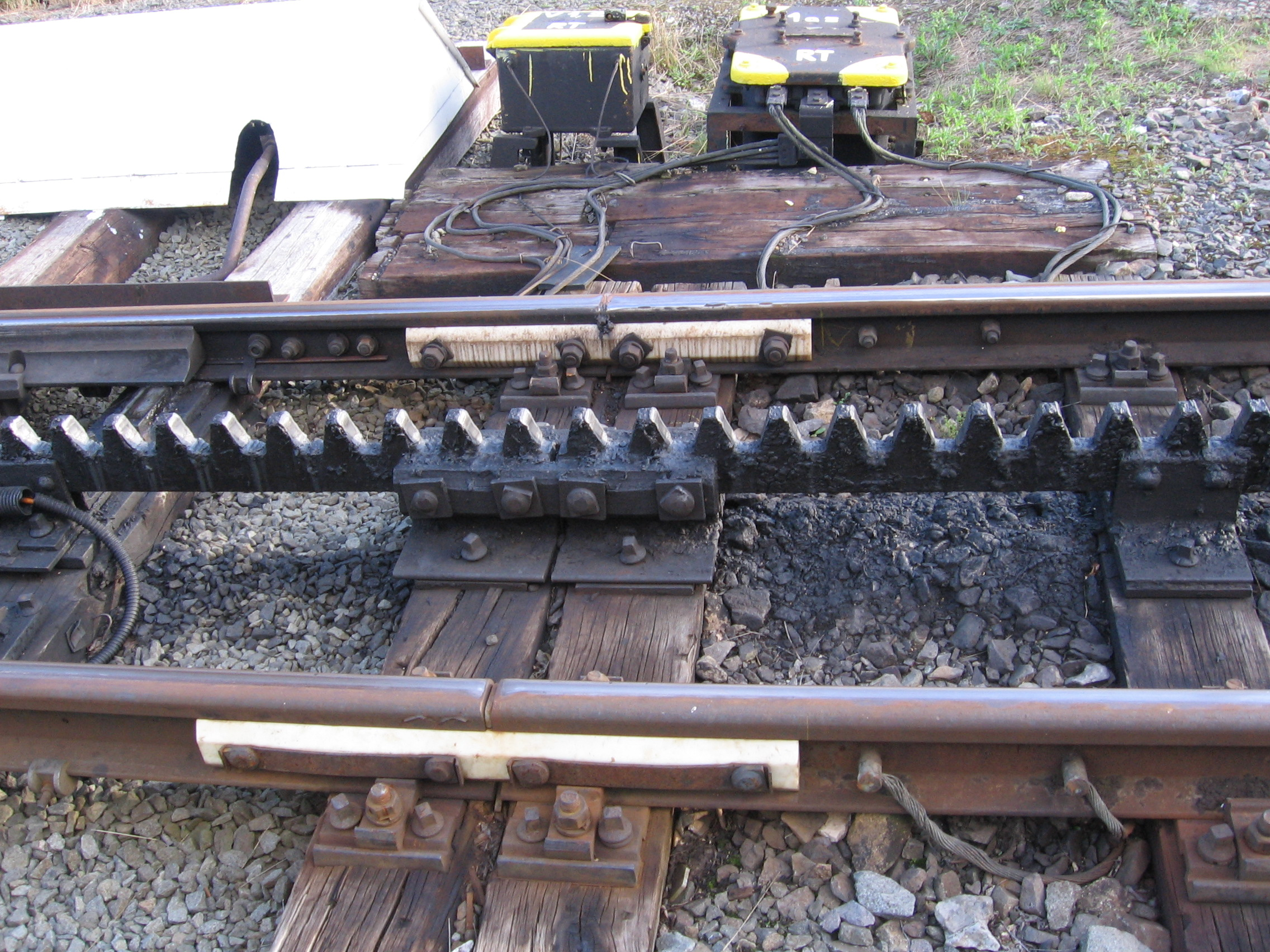 Insulated rag and rail joint.